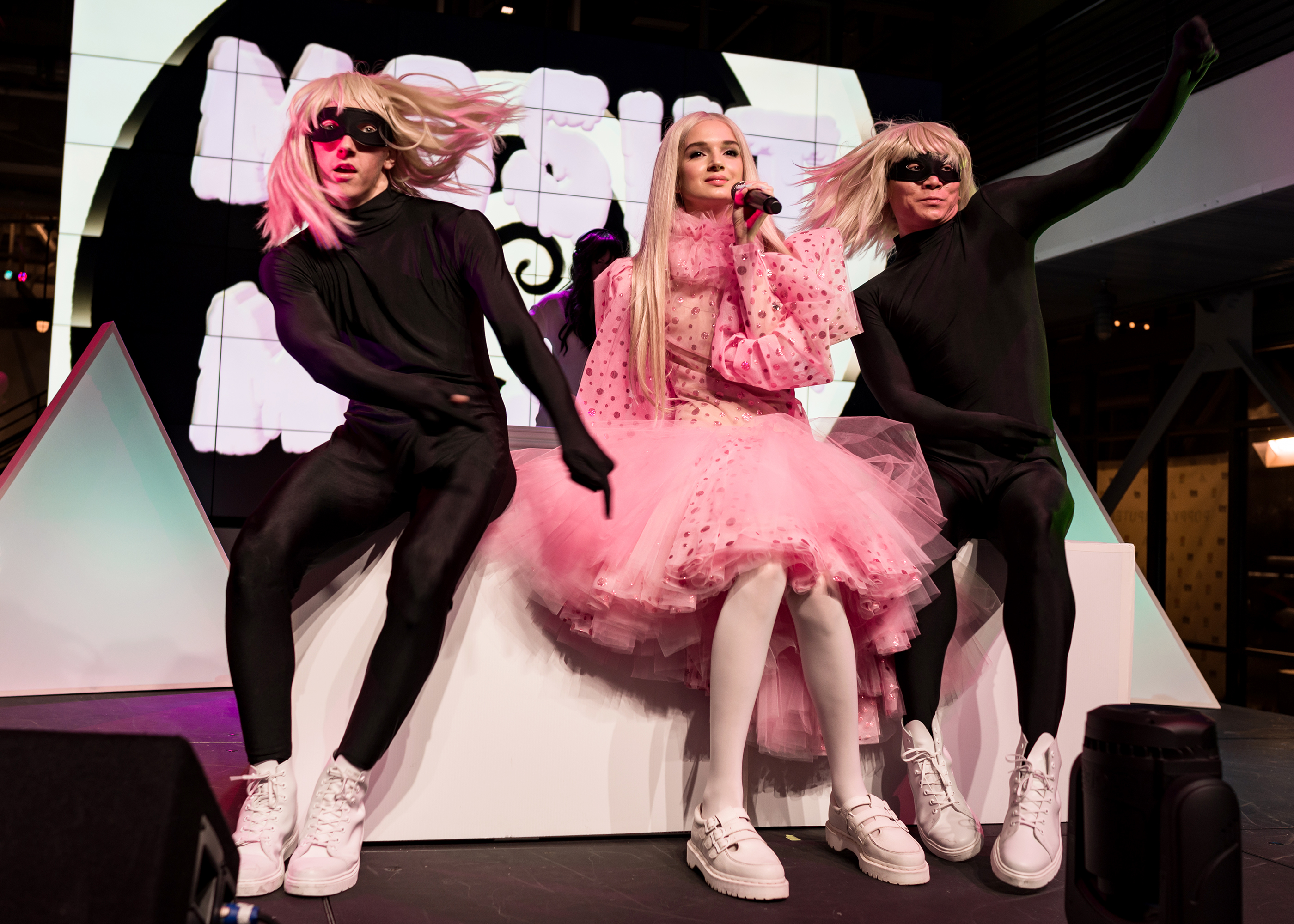 Poppy (That Poppy) performing live at YouTube Space LA in Playa Vista, Los Angeles, California, on Friday, October 6, 2017. This was short performance to promote her Poppy.Computer world tour.